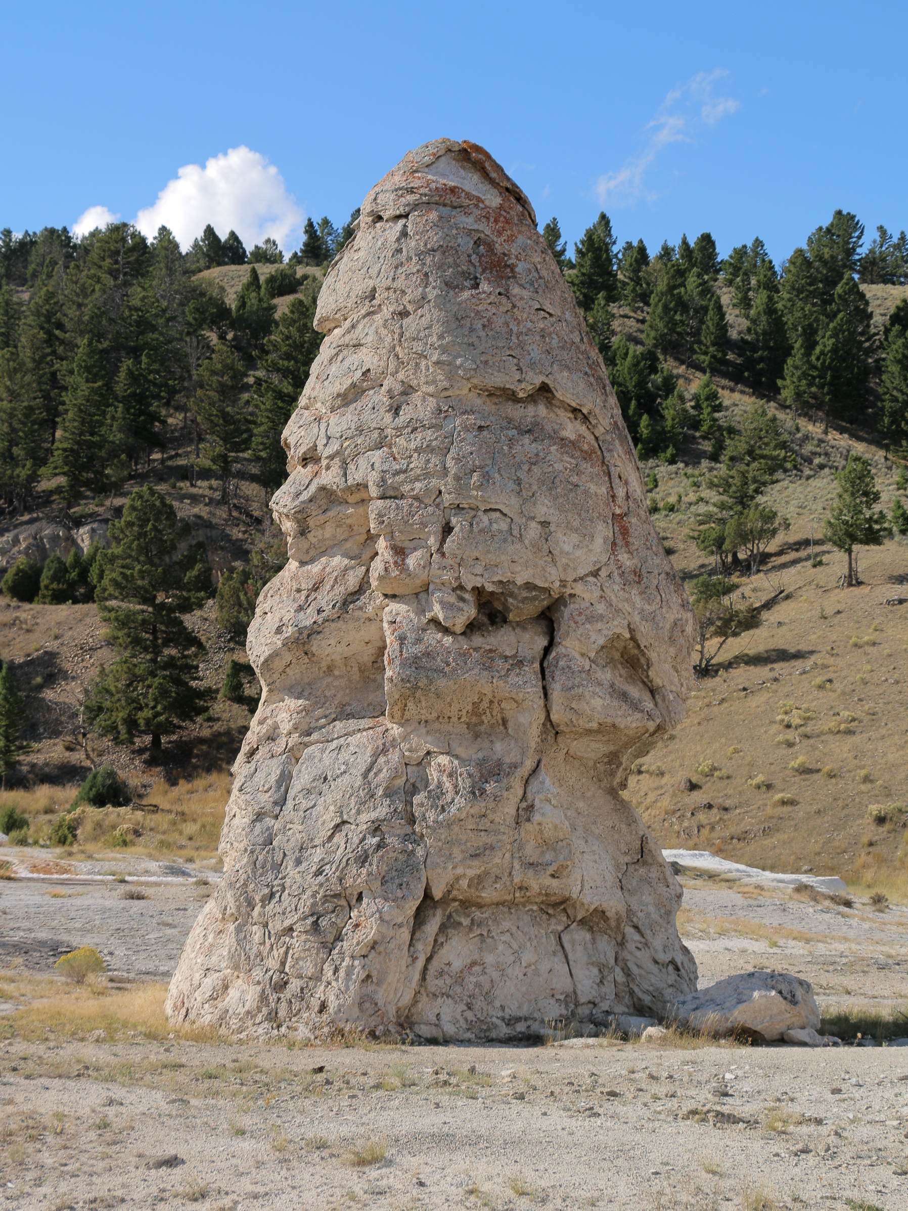 The Liberty Cap in Mammoth Hot Springs, Yellowstone National Park